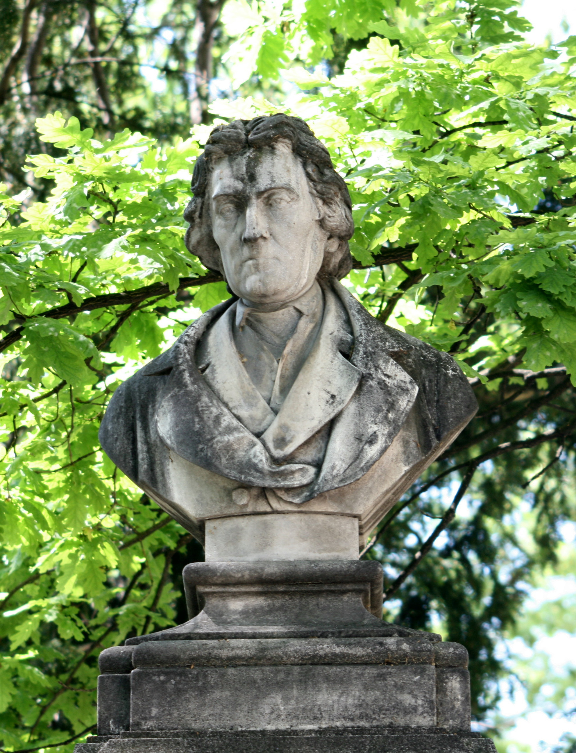 a bust of Josef Dobrovský in Prague